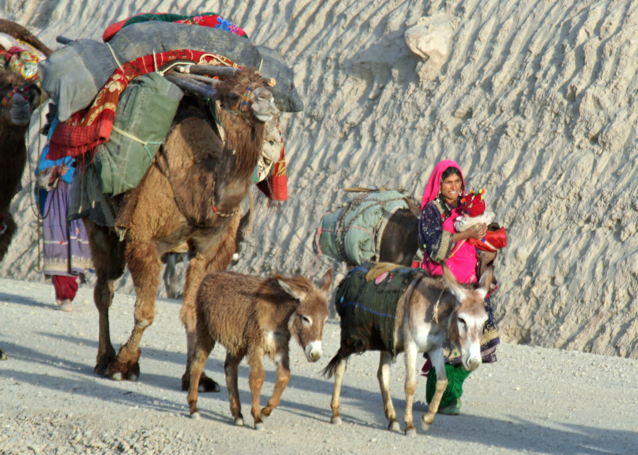 The nomadic Kuchi people migrate through the Panjshir Valley in Afghanistan, on Wednesday, May 17, 2006. Part of a Medical Civic Action Program, Provincial Reconstruction Team members provide treatment for Kuchi families as they move their sheep, goats, donkeys, camels and cattle to the high country for the summer.